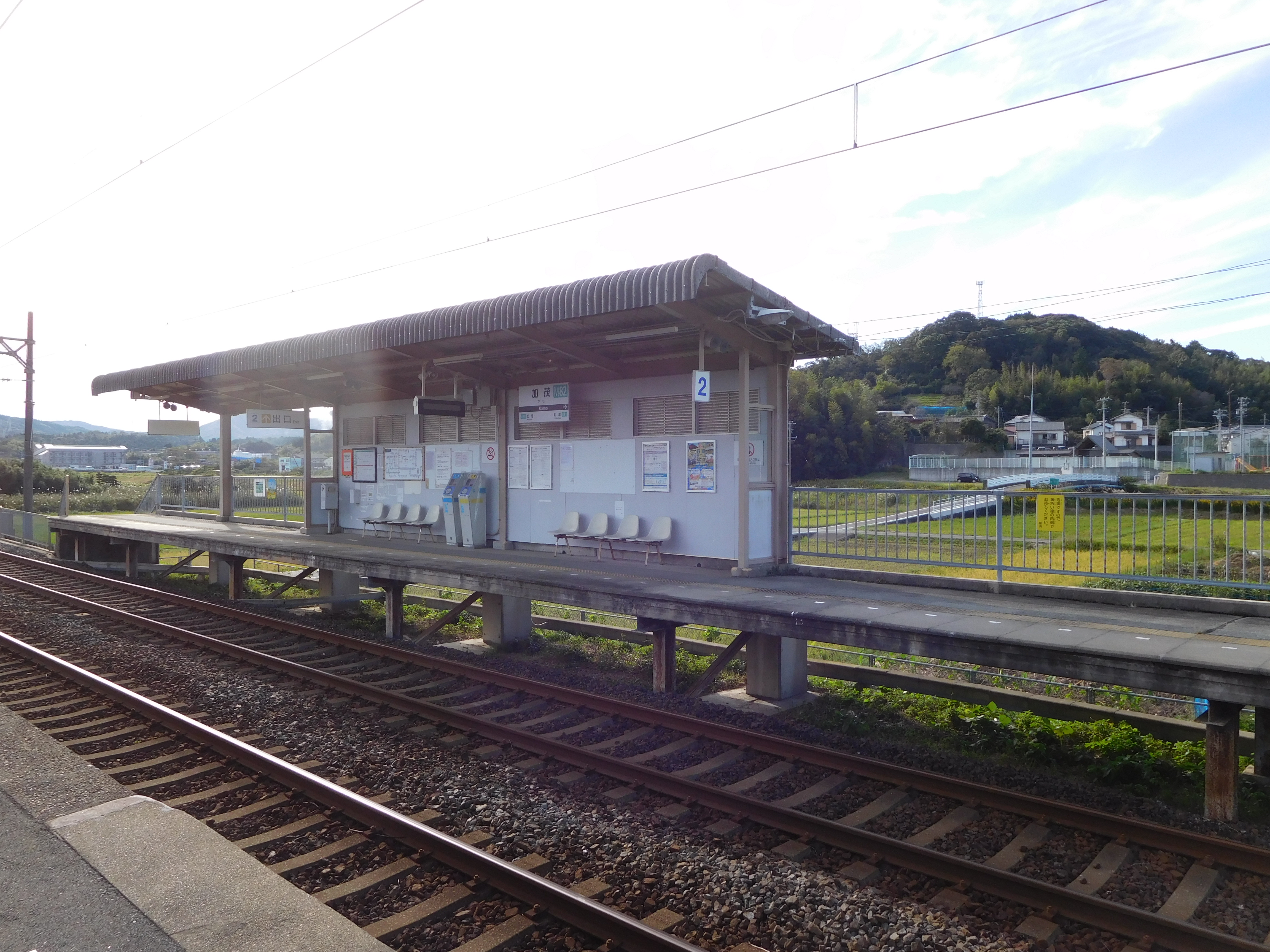 This is the platform 2 of Kintetsu Kamo station in Toba, Mie, Japan.